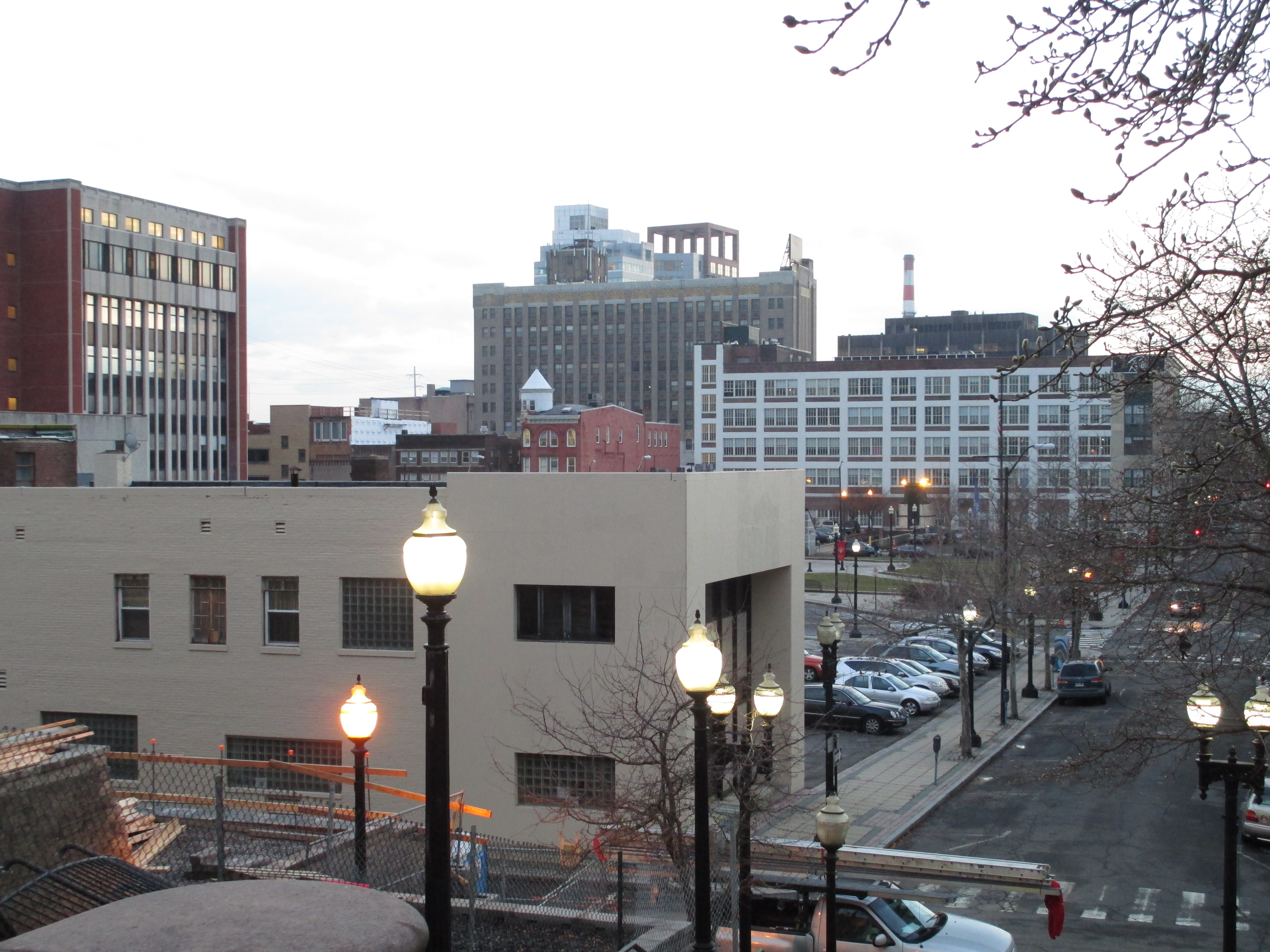 View of Downtown Bridgeport from stairs next to Cabaret Theater